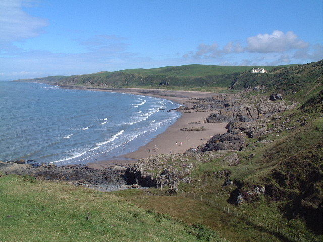 Killantringan Bay, Wigtonshire. Seen from the Southern Upland Way heading North from Portpatrick.